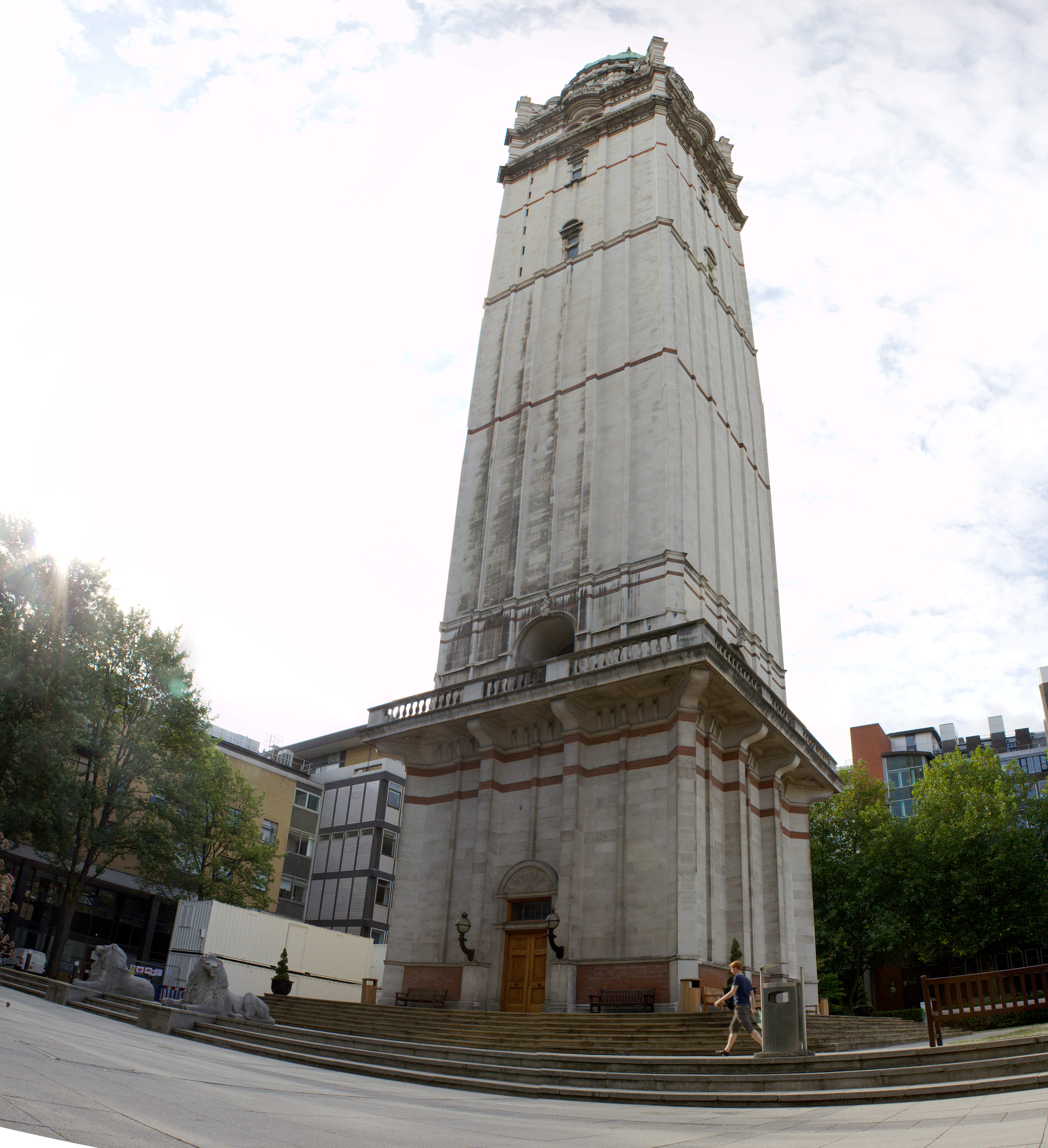 The Queen's Tower, Imperial College London, showing base with lion statues.